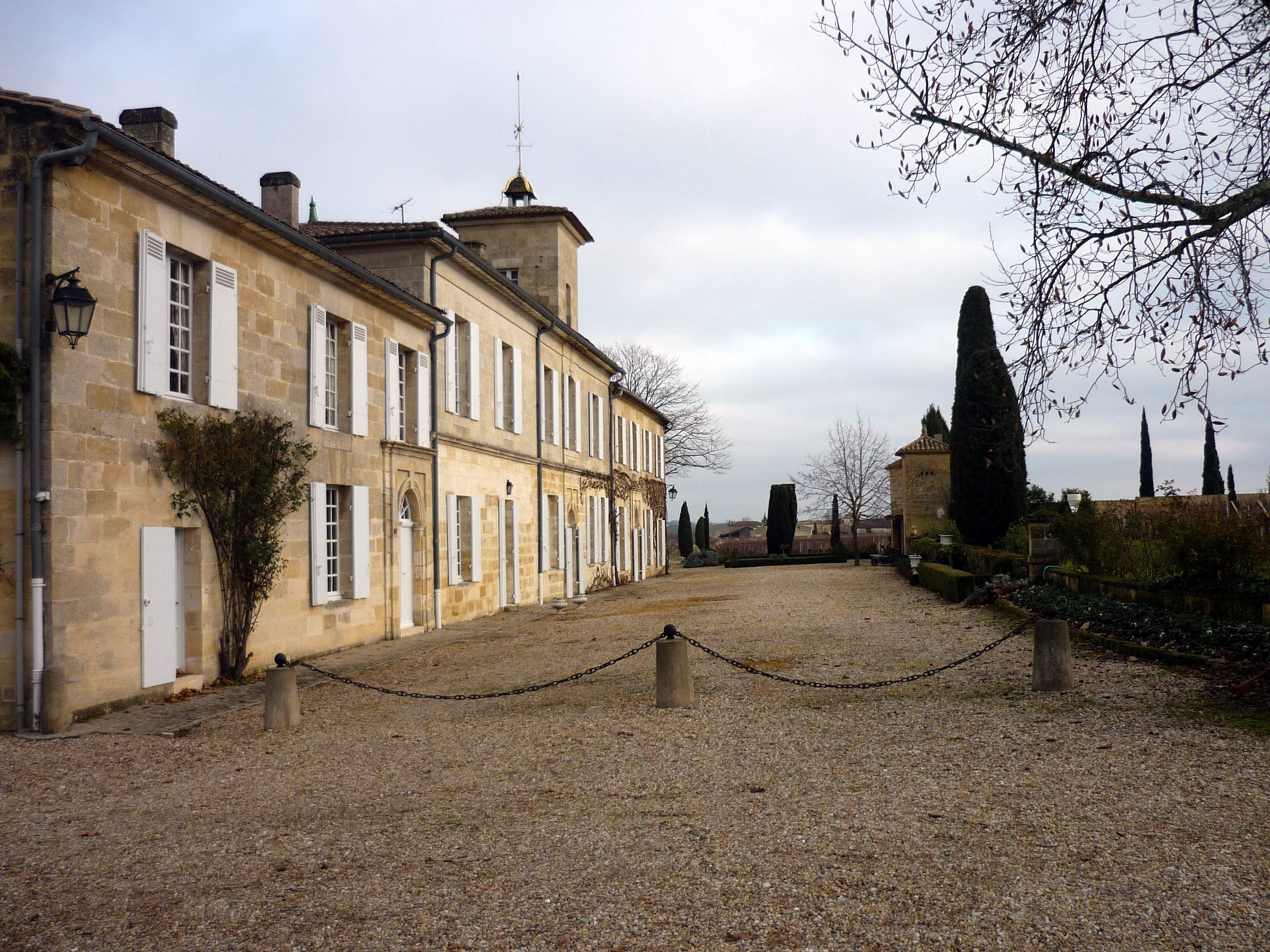 Exterior of the Pomerol winery Château Gazin located on the right bank of the French wine region of Bordeaux